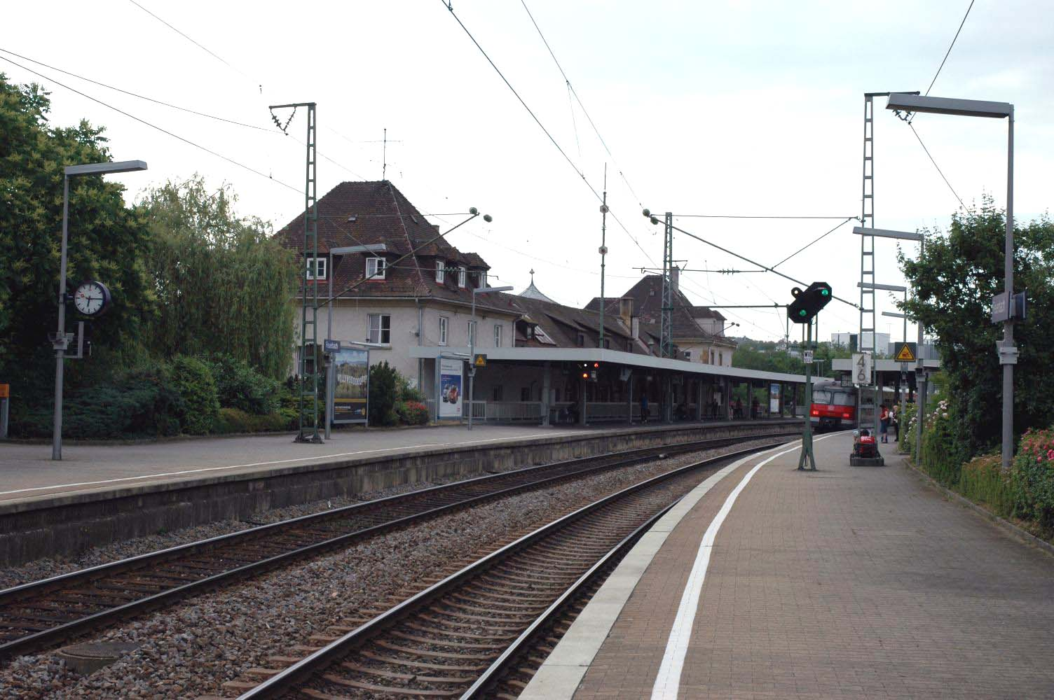 station of Stuttgart-Feuerbach, view from tracks.